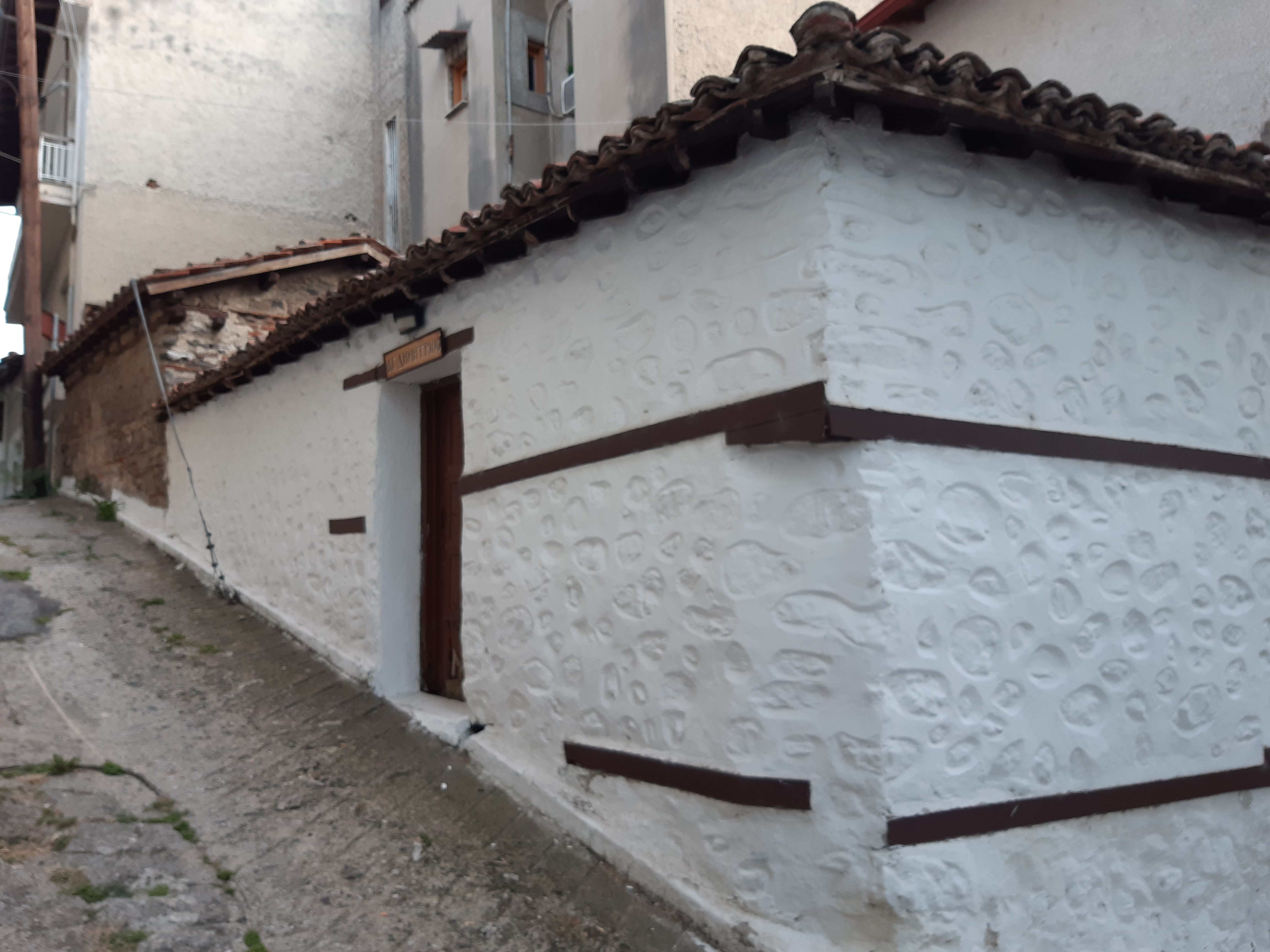 Saint Demetrius of Ikonomos Church